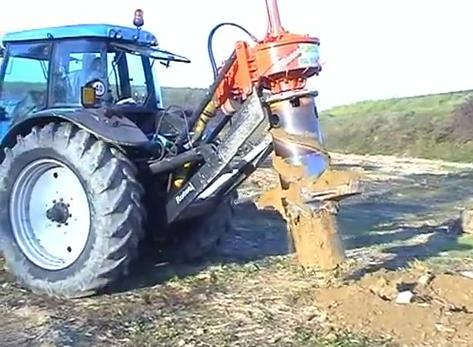 An example for eco-sustainable managing of forests.